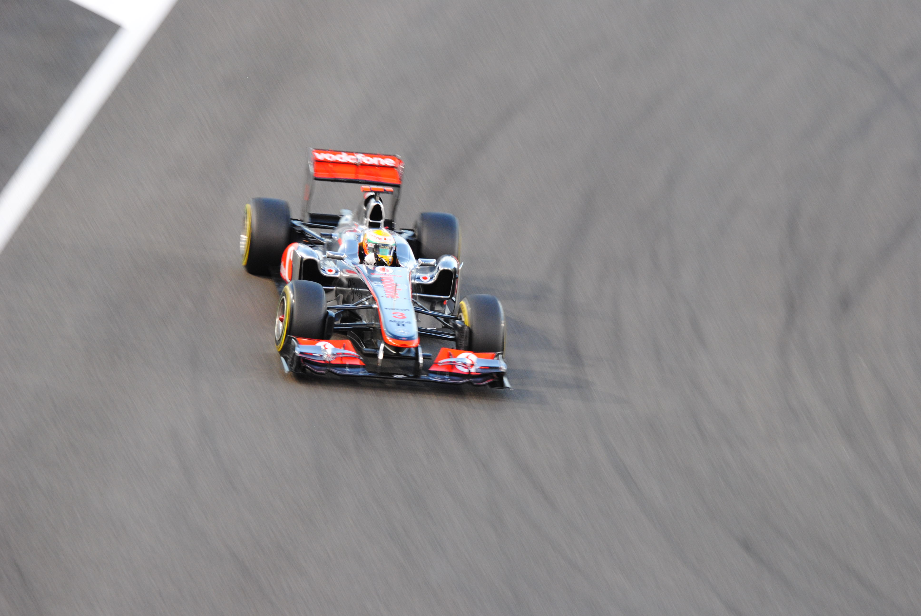 Lewis Hamilton Abu Dhabi GP qualification session